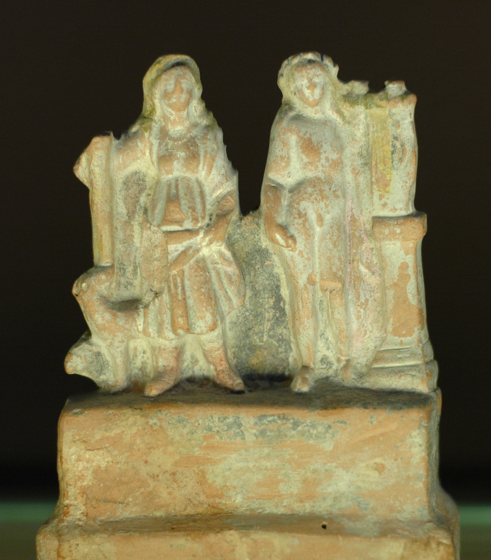 Artemis (on the left, with a deer) and Apollo (on the right, holding a lyre). Terracotta, Myrina, ca. 25 BC/CE.